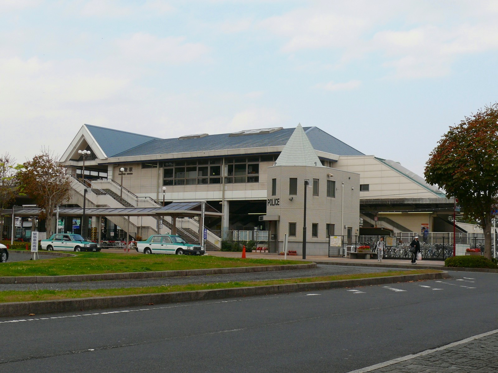 East Japan Railway kamatori-Station(Japan, Chiba City). It takes a picture of the station south entrance of JR Sotobo Line Kamatori Station from the public road. JR外房線鎌取駅の駅舎南口を公道から撮影。 駅の所在地は千葉県千葉市緑区鎌取町。